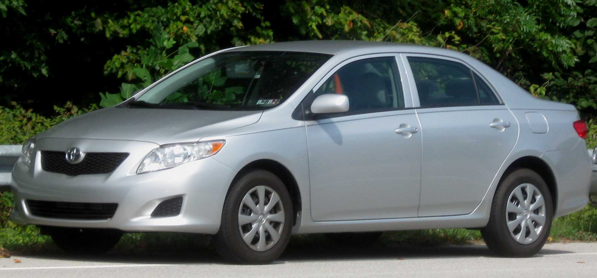 2009 Toyota Corolla photographed in College Park, Maryland, USA.